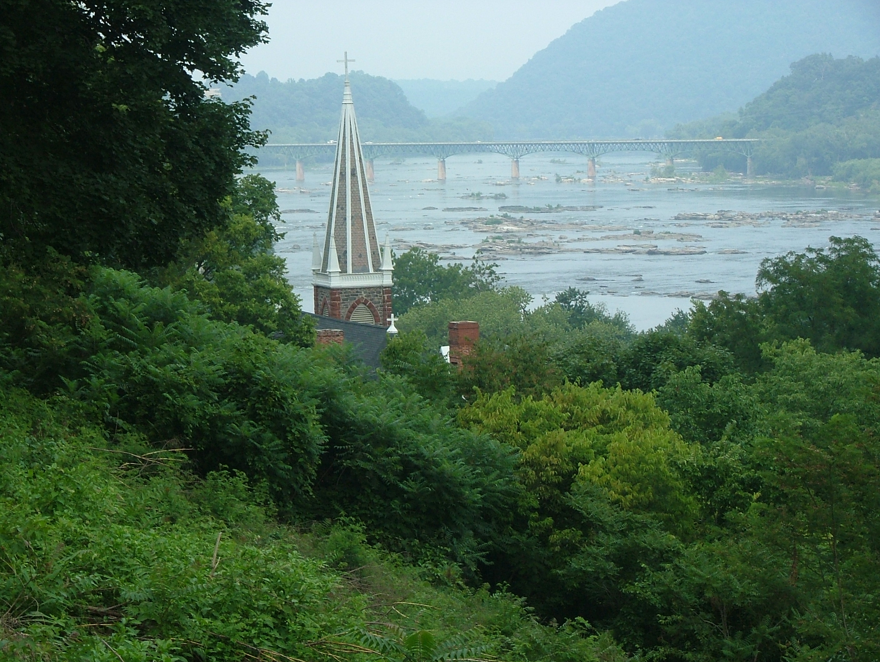 Looking eastward from Jefferson Rock, with Harpers Ferry, West Virginia in the foreground. In the distance is the Potomac River bridge, connecting Maryland (left bank) with Virginia along U.S. Highway 340. Jan Kronsell, 2004